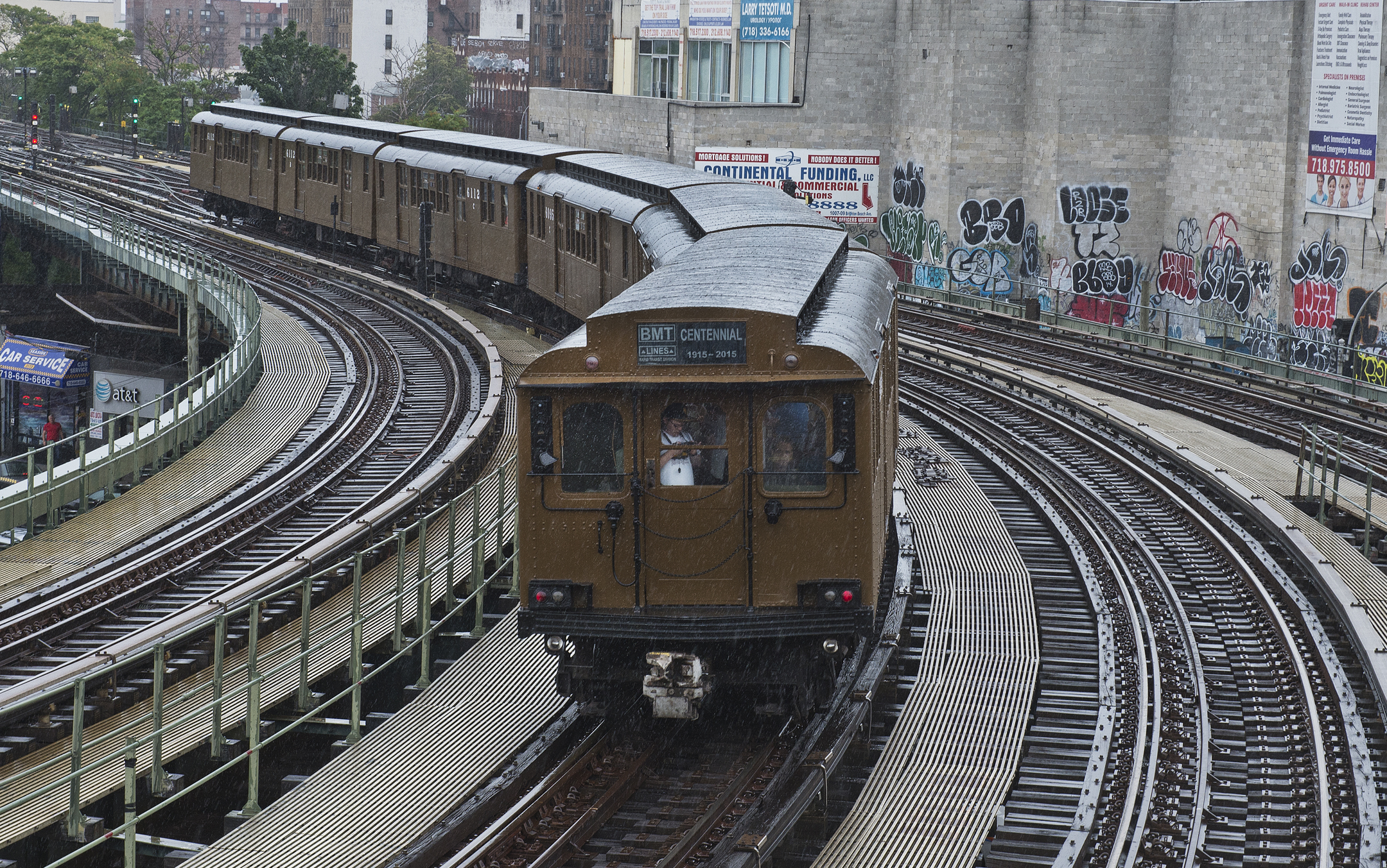 The MTA celebrated the centennial anniversary of the now-defunct Brooklyn-Manhattan Transit Corporation (BMT) with special nostaligia rides on Saturday, June 27 and Sunday, June 28, 2015. Four trains that were in service decades ago carried customers from the Brighton Beach Q station in Brooklyn on non-stop loops. Photo: Metropolitan Transportation Authority / Patrick Cashin